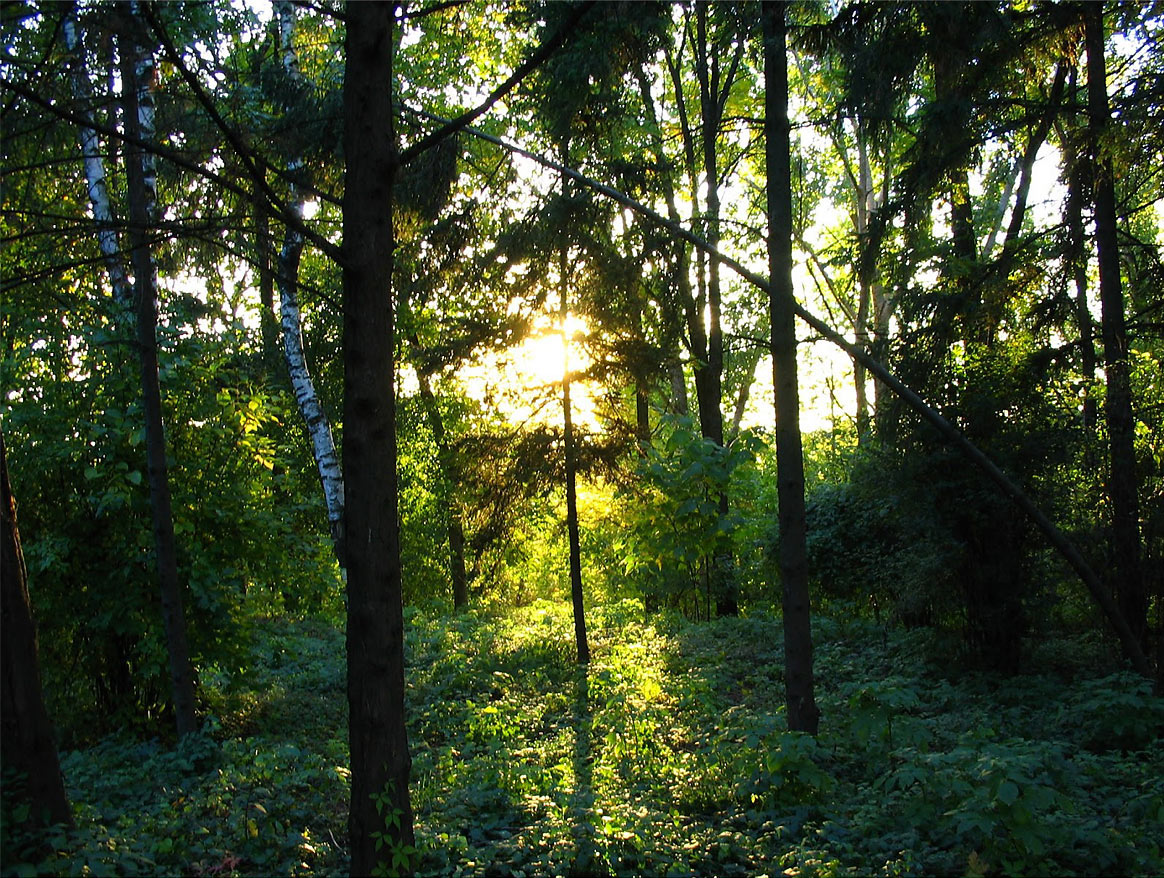 Imagini din sectorul dendrologic al Grădinii Botanice din Iaşi